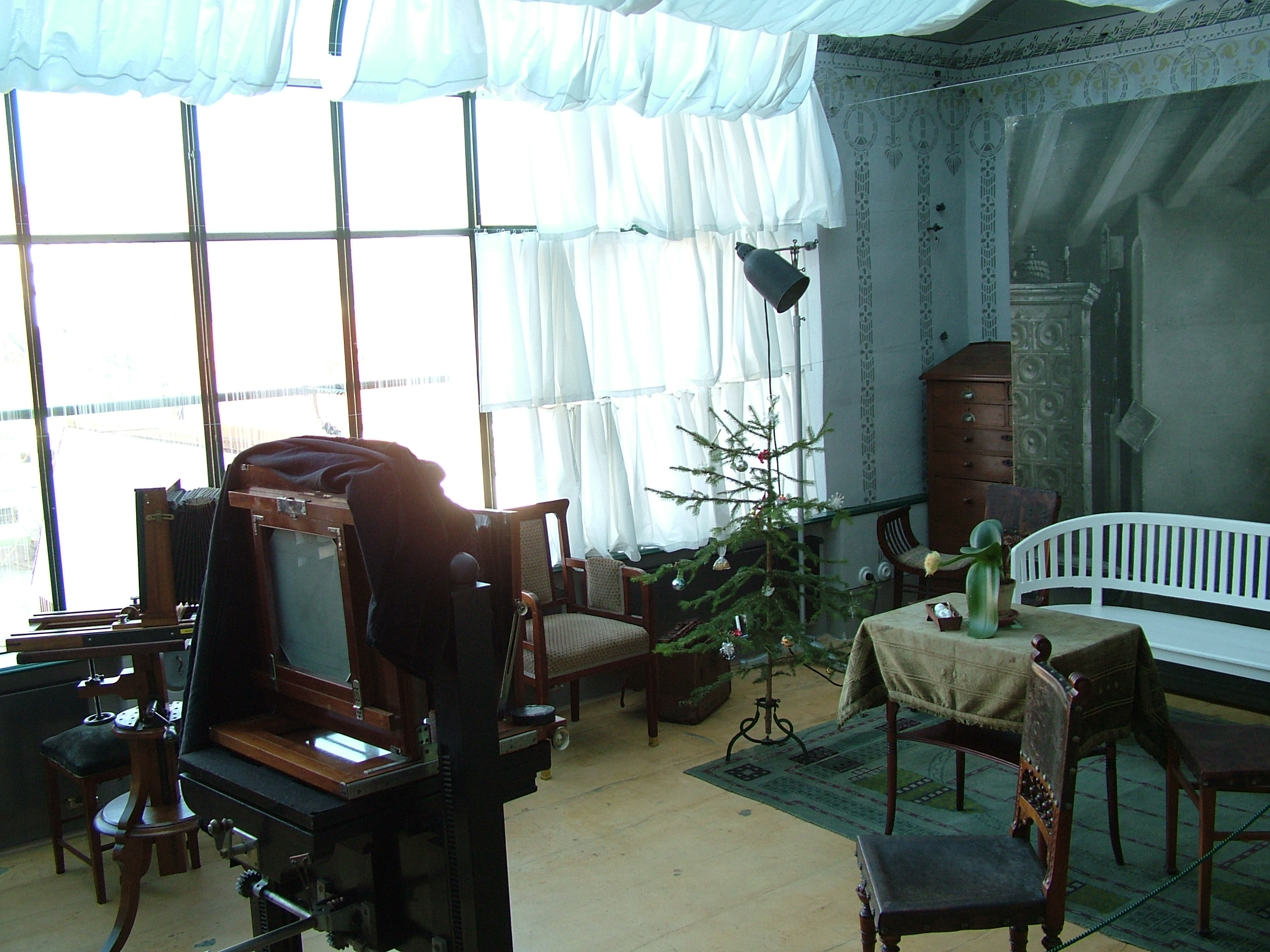 Josef Seidel atelier in Český Krumlov